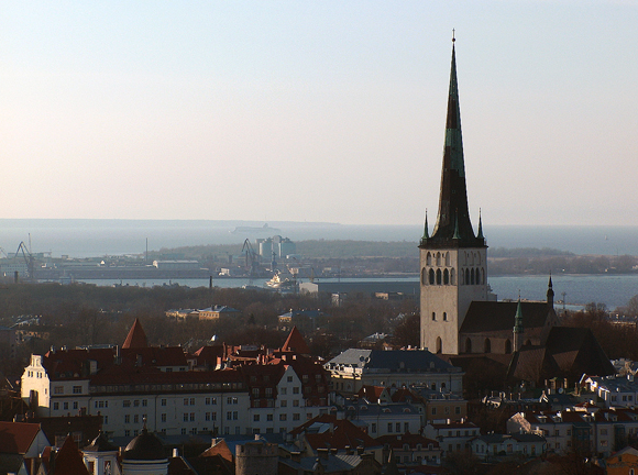 St. Olaf's Church